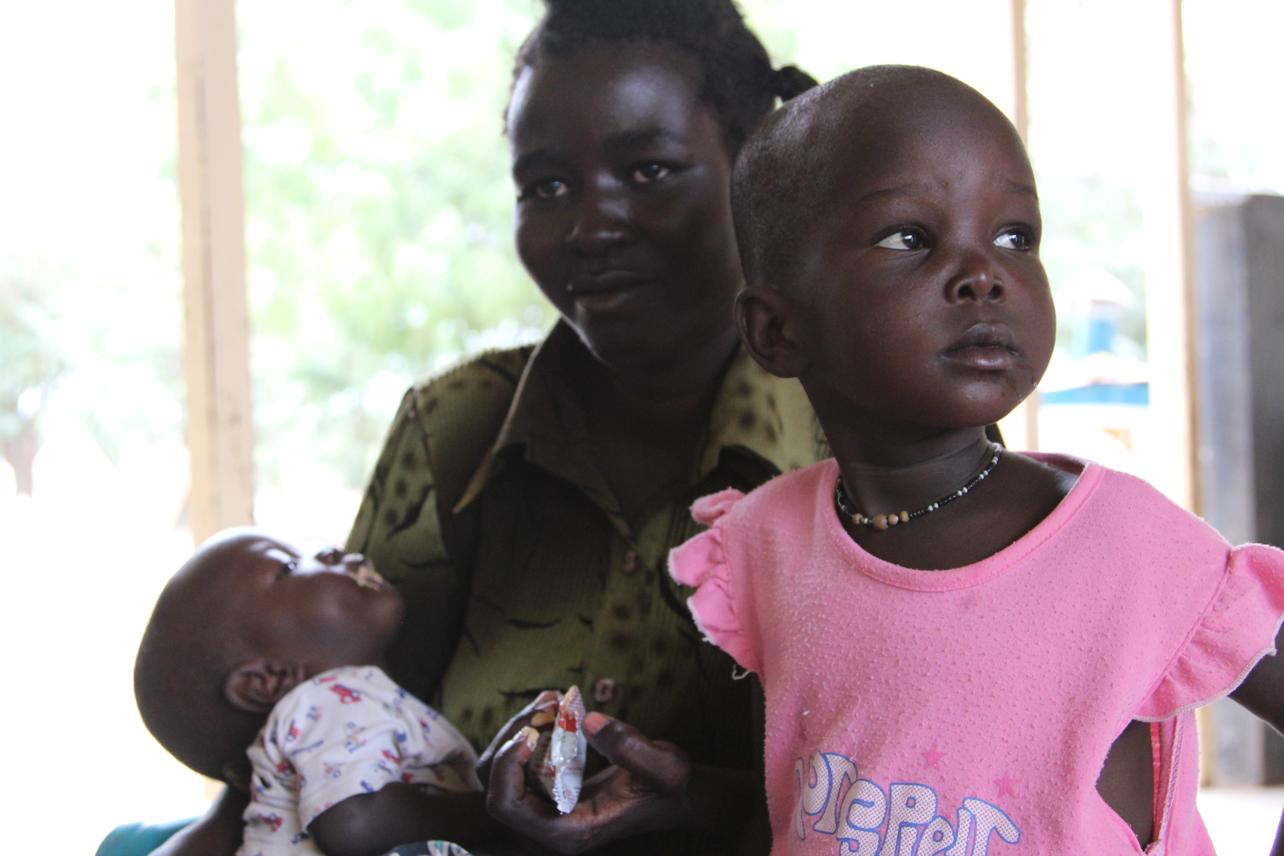 Eveline Erupe, 22, with her two daughters who are four and 10 months. Eveline has brought them to Lodwar District Hospital to the outpatient unit. Here her baby receives a ration of 'plumpy nut', a high-nutrition, peanut-based food supplement. Levels of acute malnutrition in Turkana county have soared this year due to the unstable food situation and the drought. In July 2011, admissions to hospital for children with severe acute malnutrition were four times the rate of the previous January. The outpatient unit provides food rations in the form of plumpy nut, made possible through donations from the international community including the UK. The UK is supporting UNICEF to address the problem of malnutrition in the area. Picture: Marisol Grandon/Department for International Development Terms of use This image is posted under a Creative Commons - Attribution Licence, in accordance with the Open Government Licence. You are free to embed, download or otherwise re-use it, as long as you credit the source as 'Marisol Grandon/Department for International Development'.